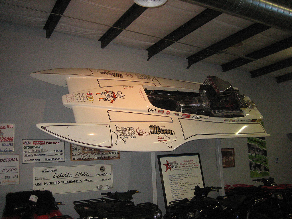 Hill's Top Fuel boat on display at his dealership. Eddie Hill photo, August 2008. He ran 229 mph in the quartermile in this one, and we were in the Guinness Book of World Records for ten years as the world's fastest propeller-driven boat. On free display at Eddie Hill's Fun Cycles in Wichita Falls, Texas.